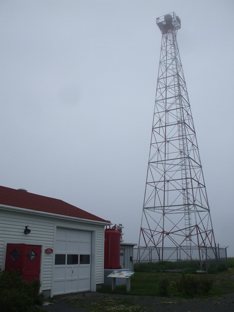 Skeleton-type tower, aid to navigation in Pointe-au-Père, Quebec, Canada. No longer operational.